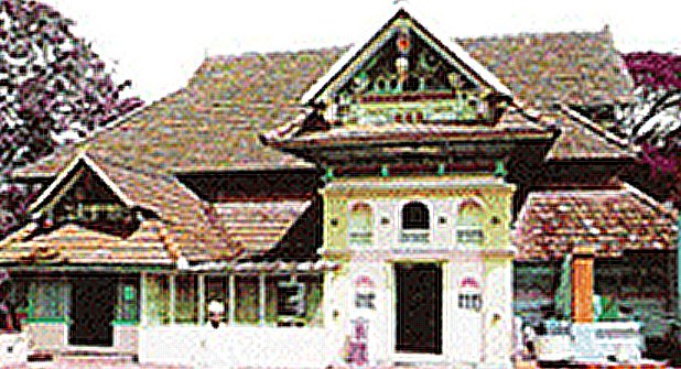 Malik Bin Dinar mosque, Juma Masjid, Thazhathepadi, Kazarkode, Kerala.